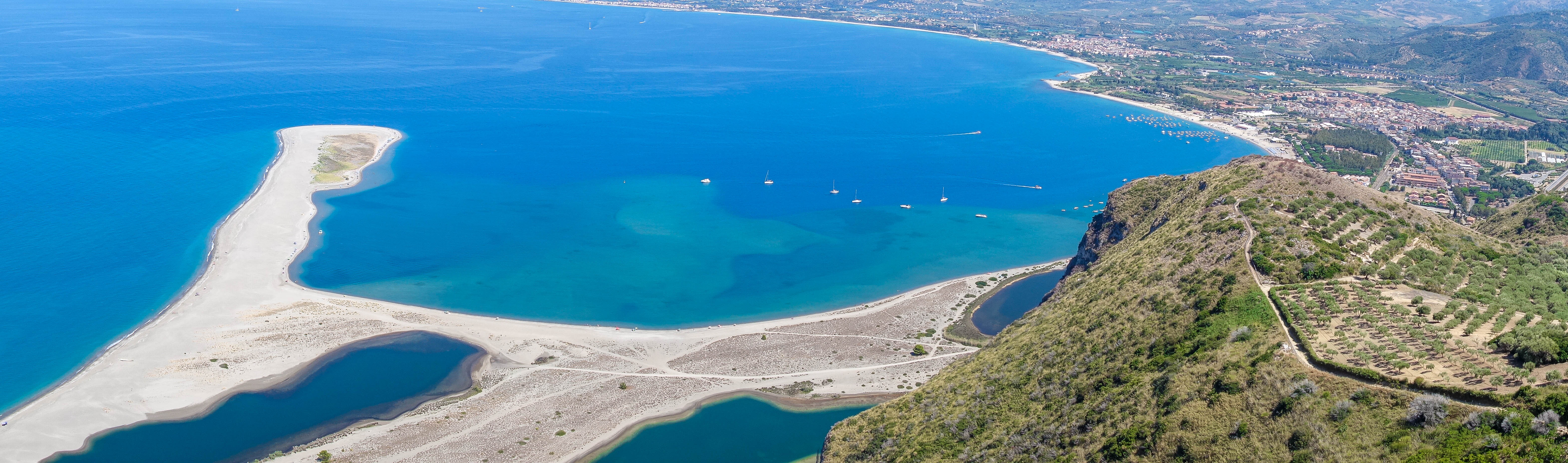 Reserve of the Lakes of Marinello - View from the New Sanctuary of the Madonna del Tindari (1598), Tindari, Sicily, Italy, August 2018 DR